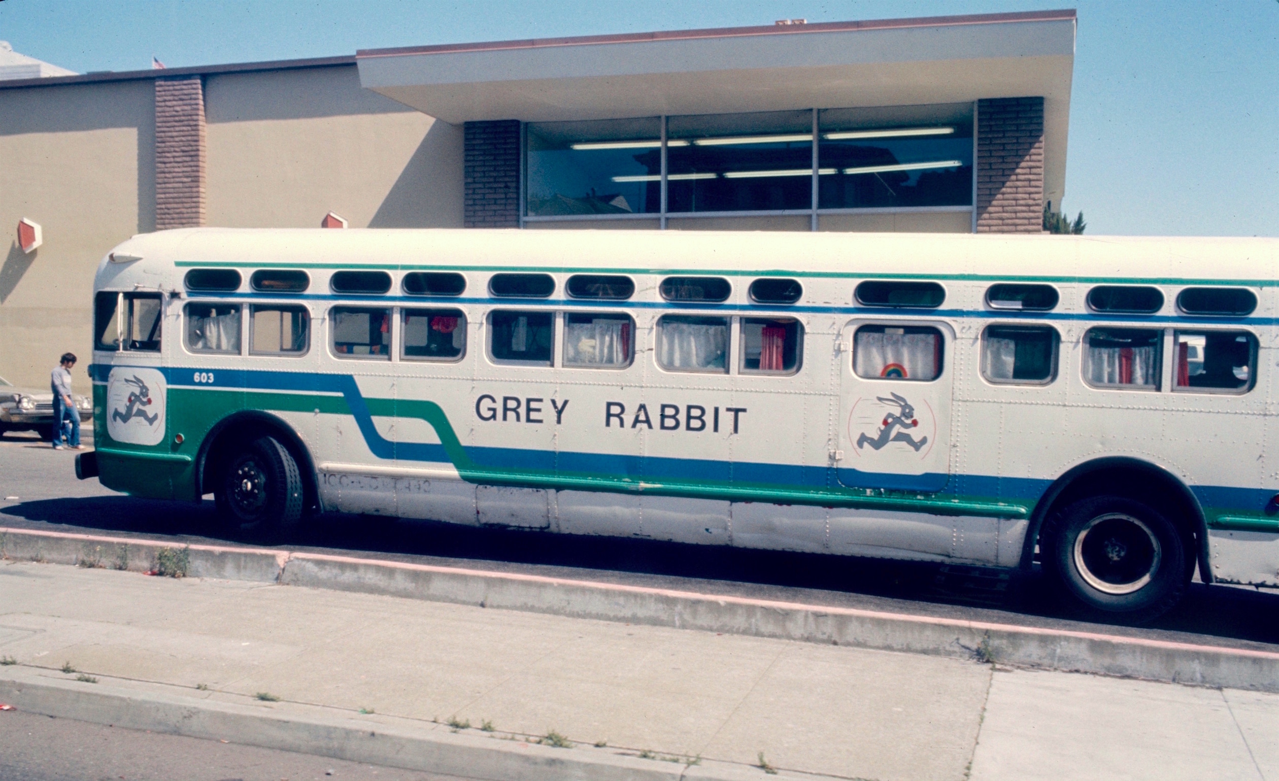 A Grey Rabbit bus in San Francisco in 1982. The bus was parked next to a Safeway store at Market & Church Streets. Bus No. 603 was a GM "old-look" transit bus which had received some modifications to facilitate long-distance and overnight travel. The photo was taken from a passing streetcar.